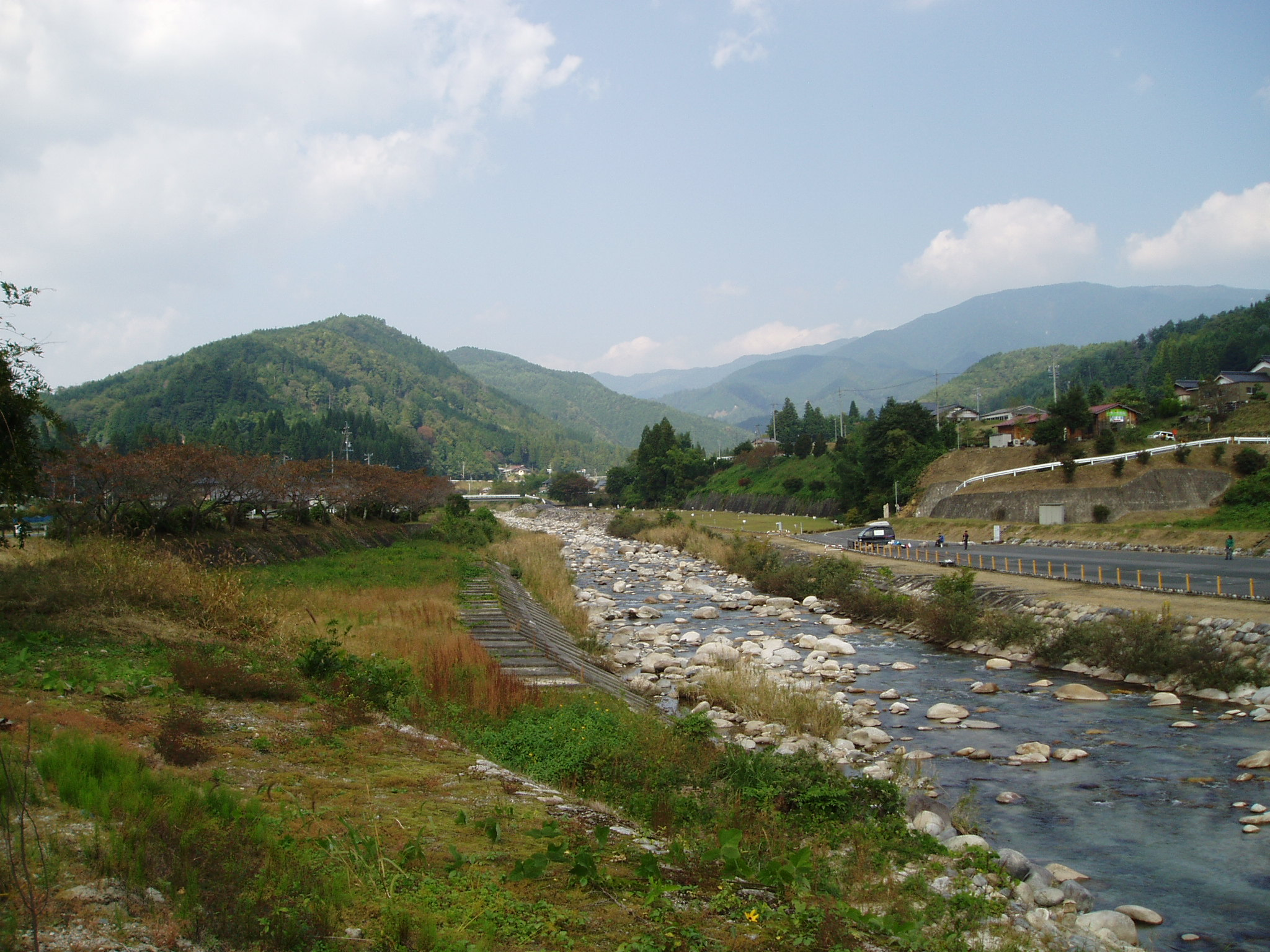 The Kawaue River in Nakatsugawa-City, Gifu-Prefecture. （Marinesnow5 (talk)'s file） Date:2011-10-10. Author:Marinesnow5 (talk). location:Kawaue, Nakatsugawa-City, Gifu-Prefecture, Japan.